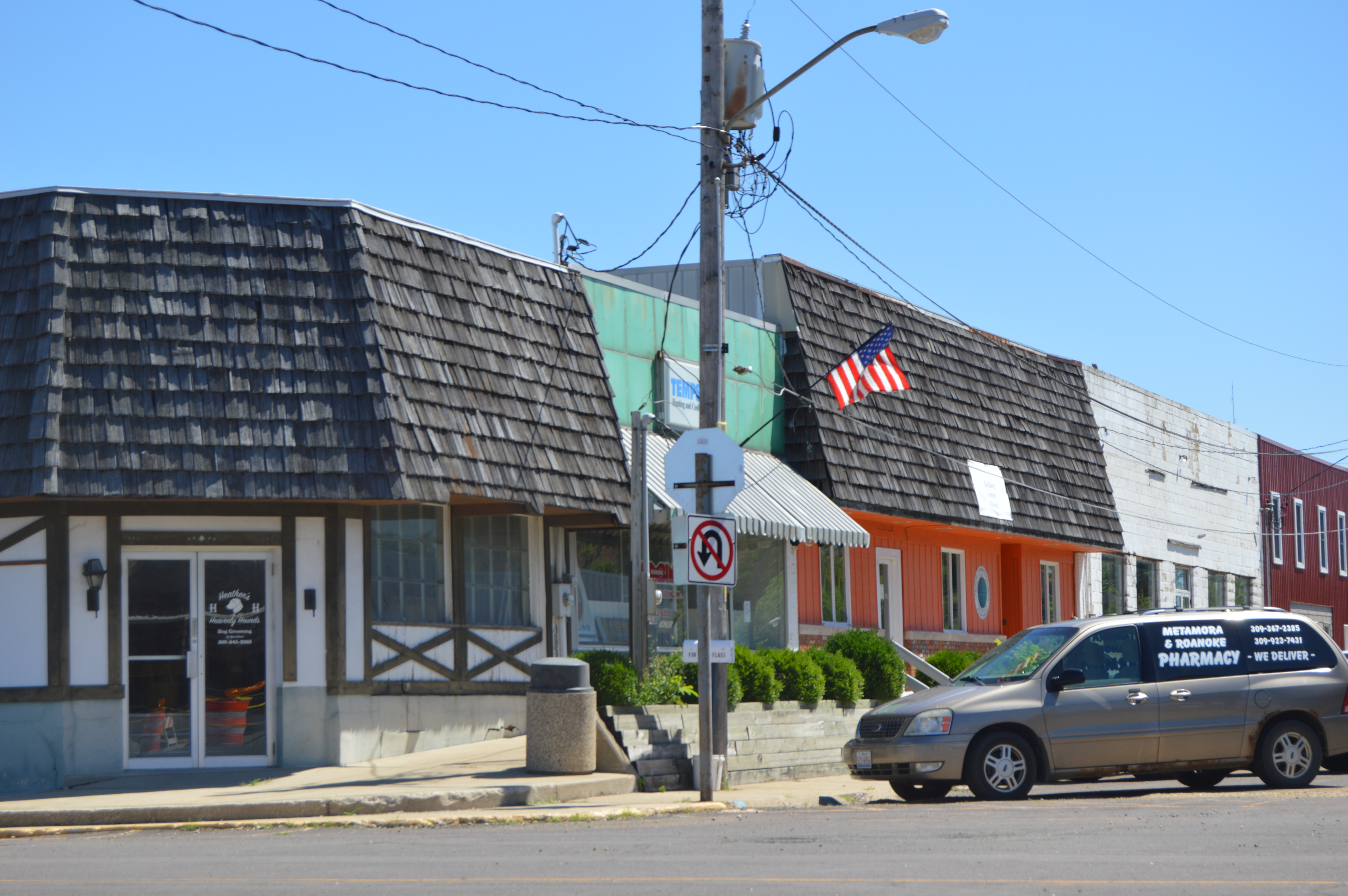 Buildings on the northern side of Broad Street, seen looking east from the Main Street intersection, in Roanoke, Illinois, United States.